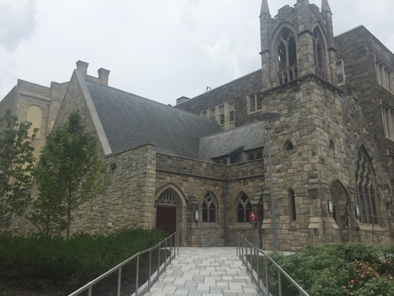 Shusterman Hall - The James E. Beasley School of Law